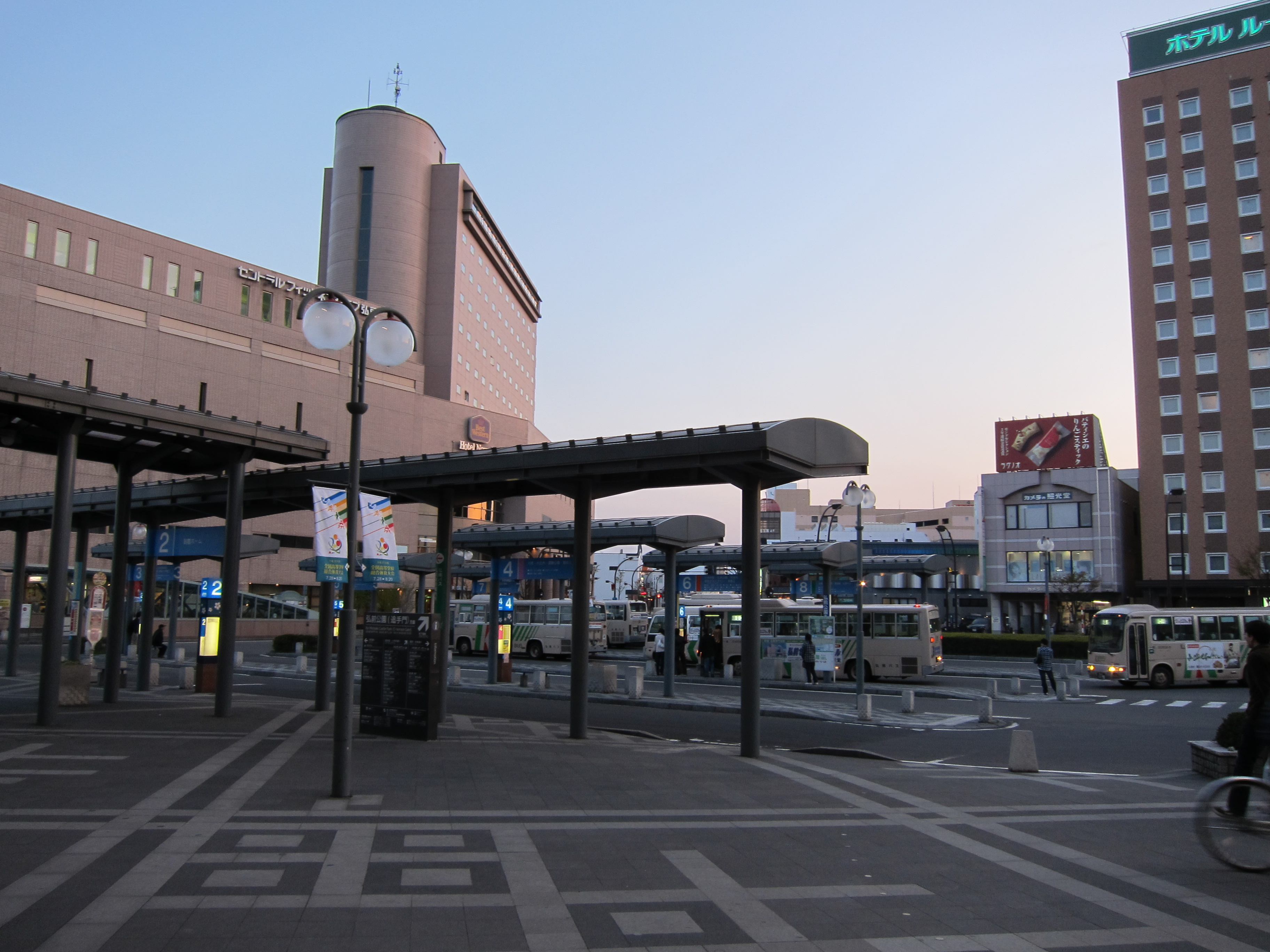 Hirosaki Station